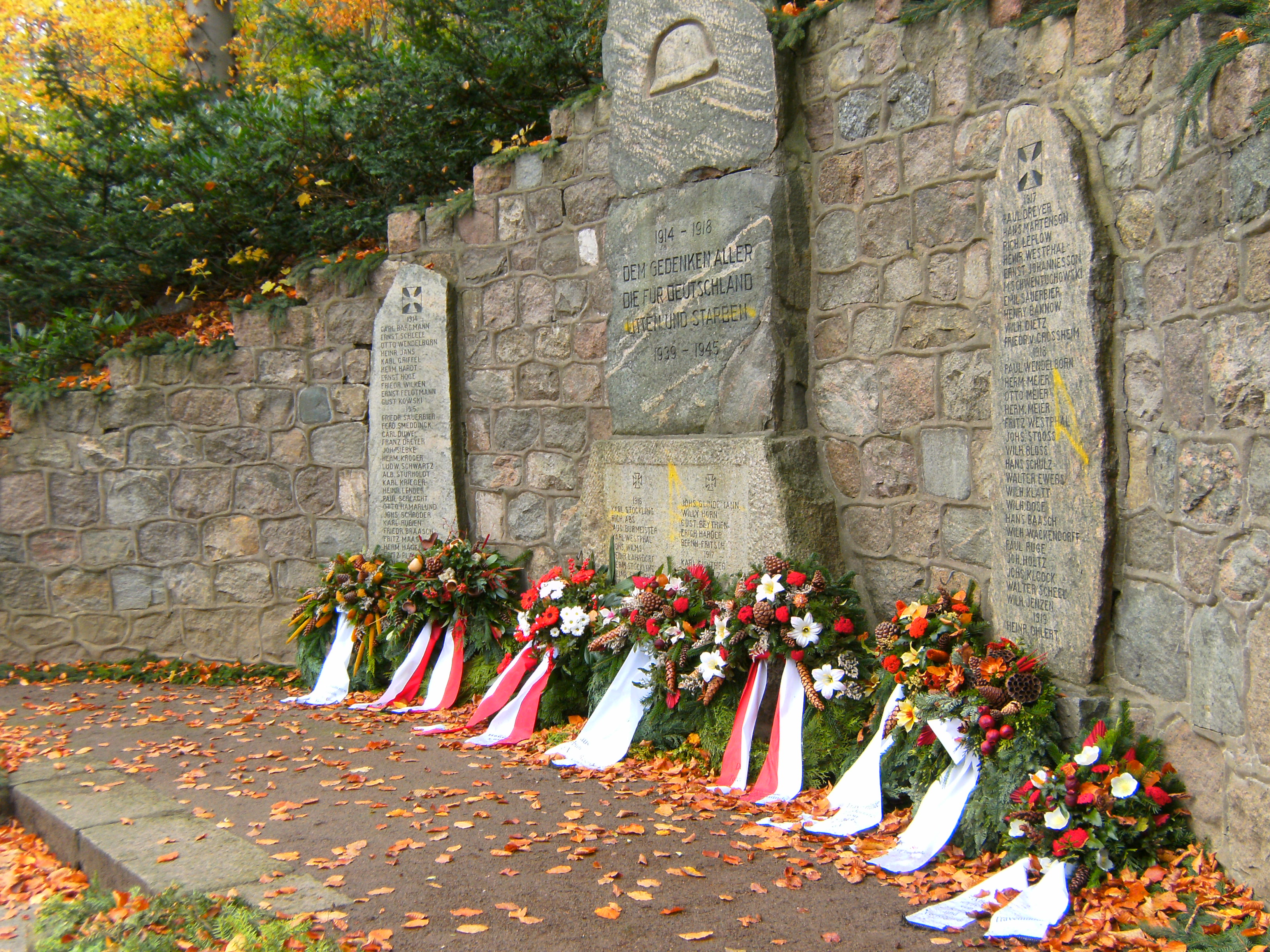 Memorial stones in Zippelpark in Travemünde, Germany for those killed in action. Complete. In 2014.